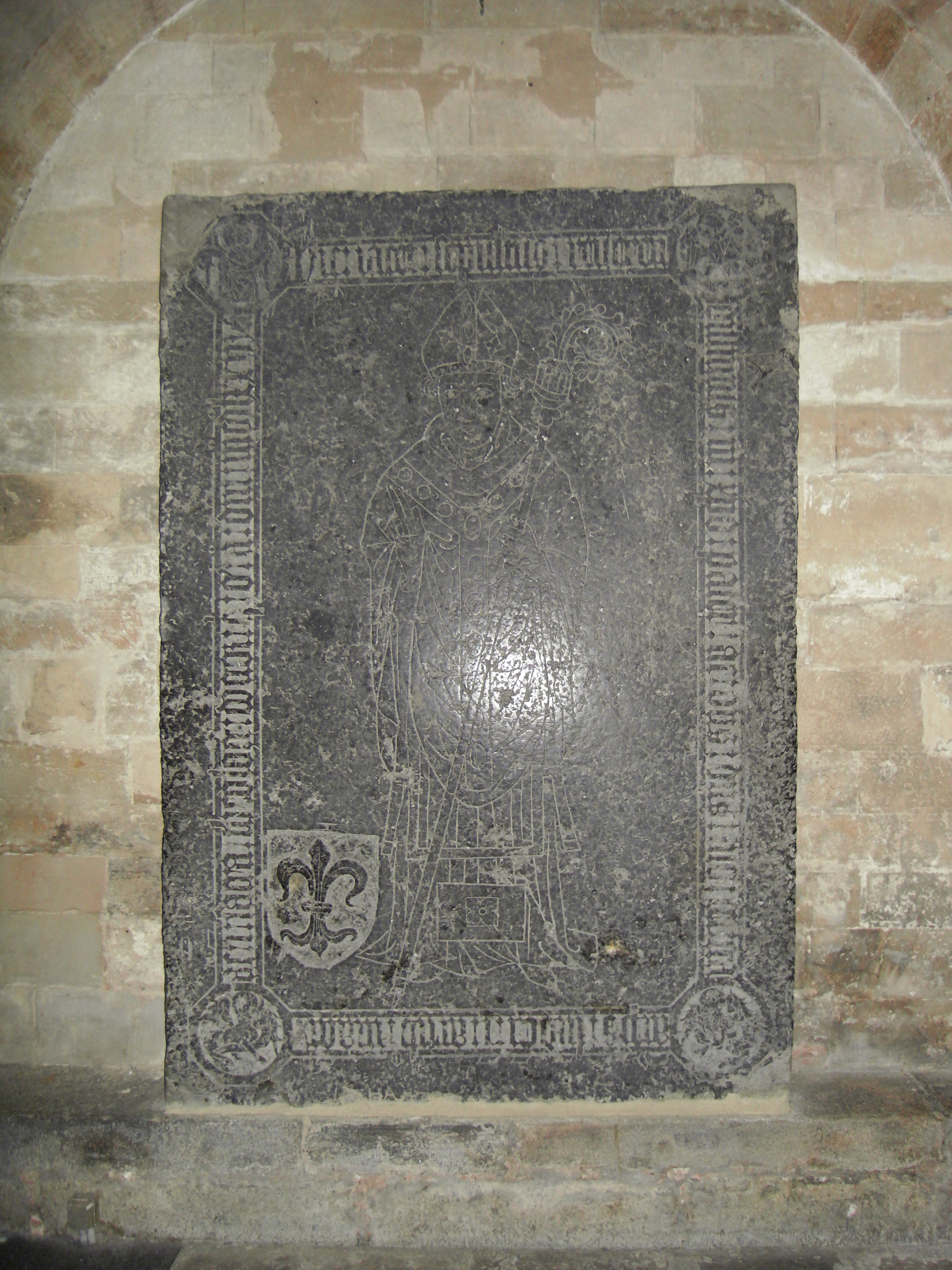 The ledger stone of Tuve Nielsen, archbishop of Lund from 1443 to 1472, in the crypt of Lund Cathedral.